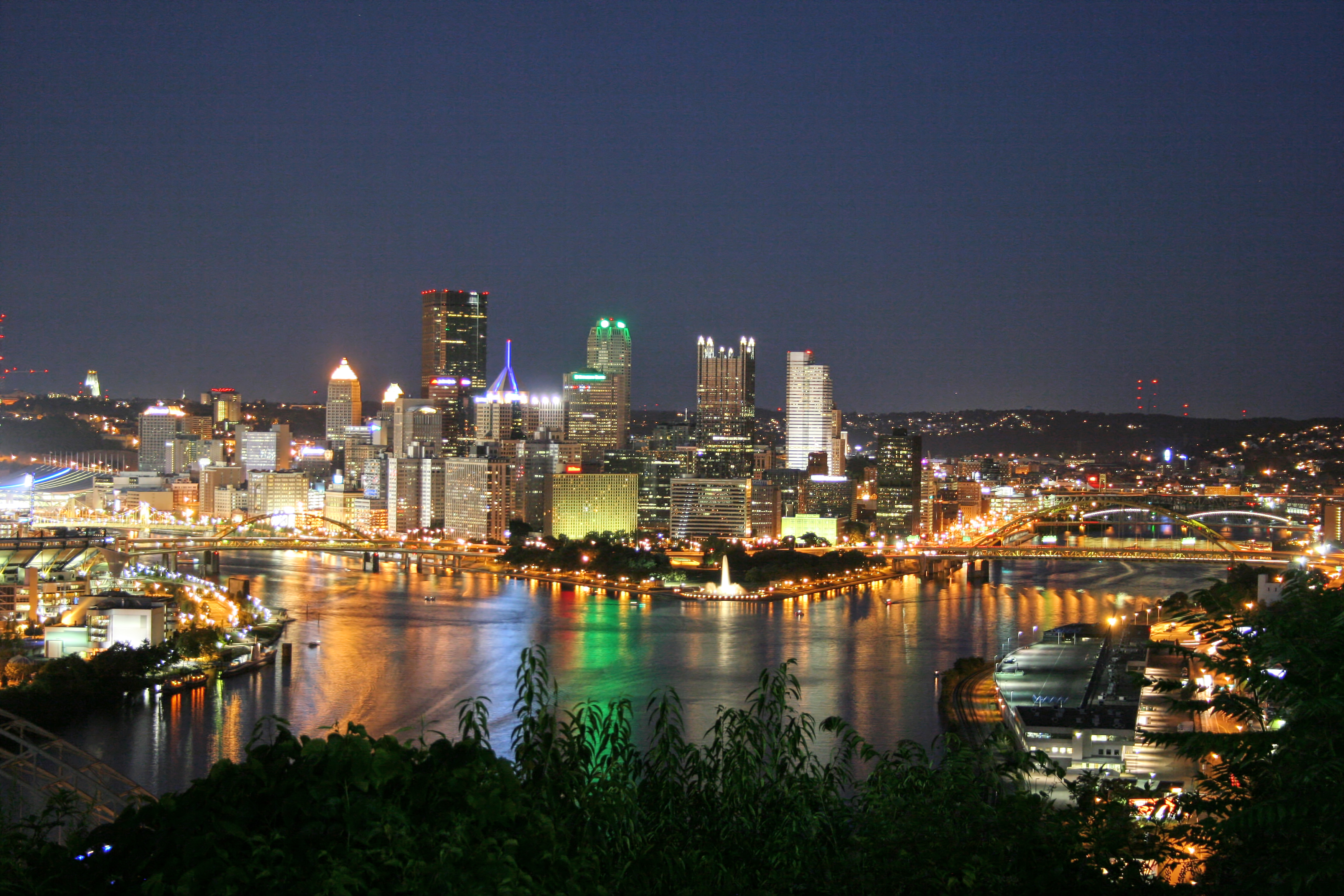 Pittsburgh, Pennsylvania skyline photograph, taken from the West End Overlook.